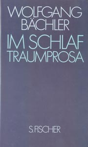 Book cover of Wolfgang Bächler , "Im Schlaf" 1988